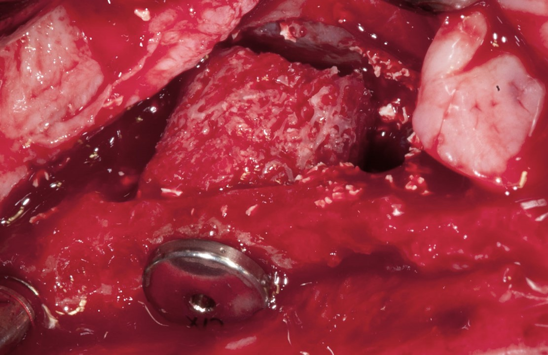 allogenic bonering inserted in sinus maxillaris